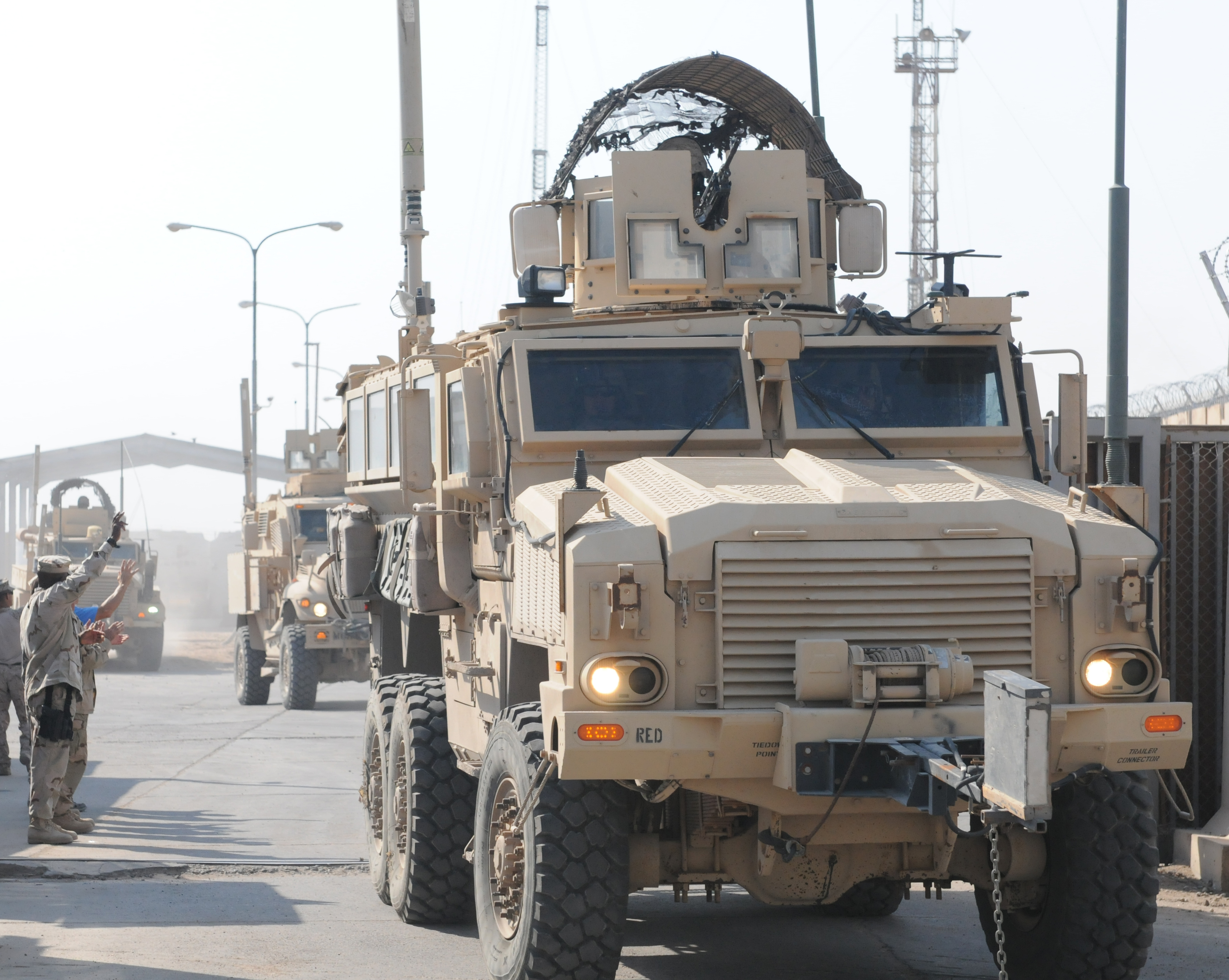 A team of 13 U.S. Marine Corps trainers assigned to the Iraqi Marine Training Team 03 left here Oct. 14. IqMTT-03 was the last Marine team of Operation New Dawn that left Iraq in transition to Kuwait. The Marines, from Camp Pendleton Calif., assigned to I Marine Expeditionary Force deployed in May. The team spent the last several months training Iraqi marines in various skills such as patrolling, night operations, weapons training and search and seizure techniques. 204th Public Affairs Detachment (Forward) Photo by Staff Sgt. Rauel Tirado Date Taken:10.14.2011 Location:UMM QASR, IQ Related Photos